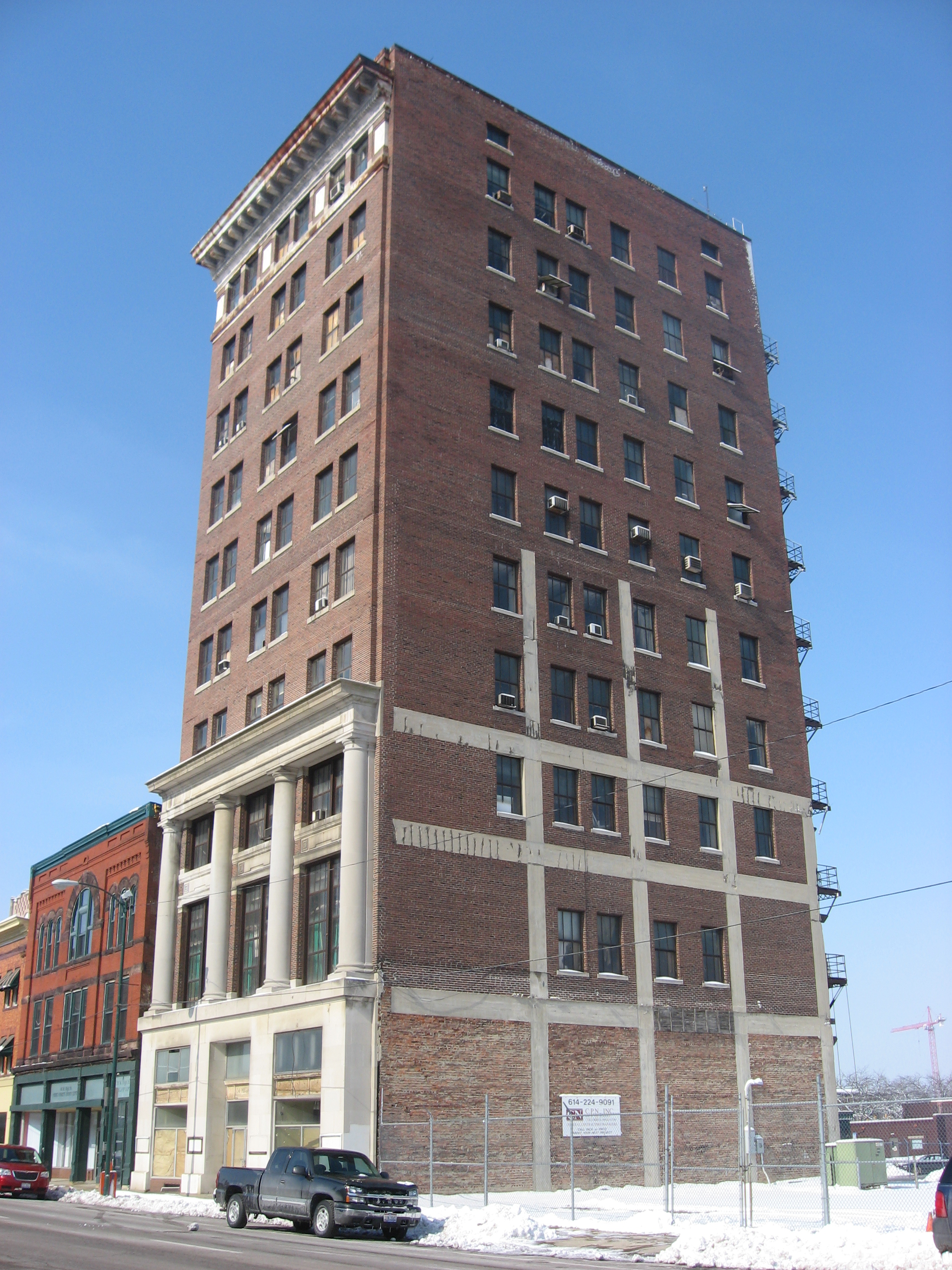 Eastern side of the Tecumseh Building, located at 34 W. High Street in downtown Springfield, Ohio, United States. Built in 1922, it is listed on the National Register of Historic Places.